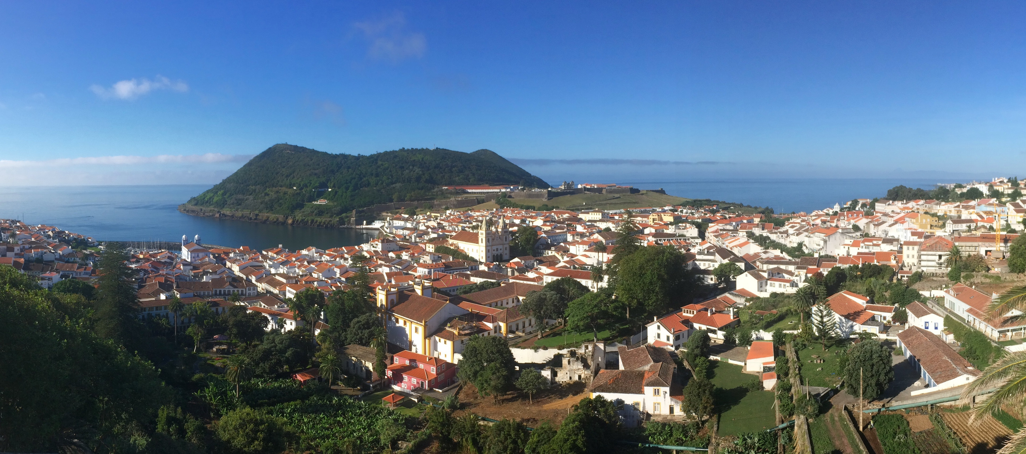 View over Angra do Heroismo from the garden.